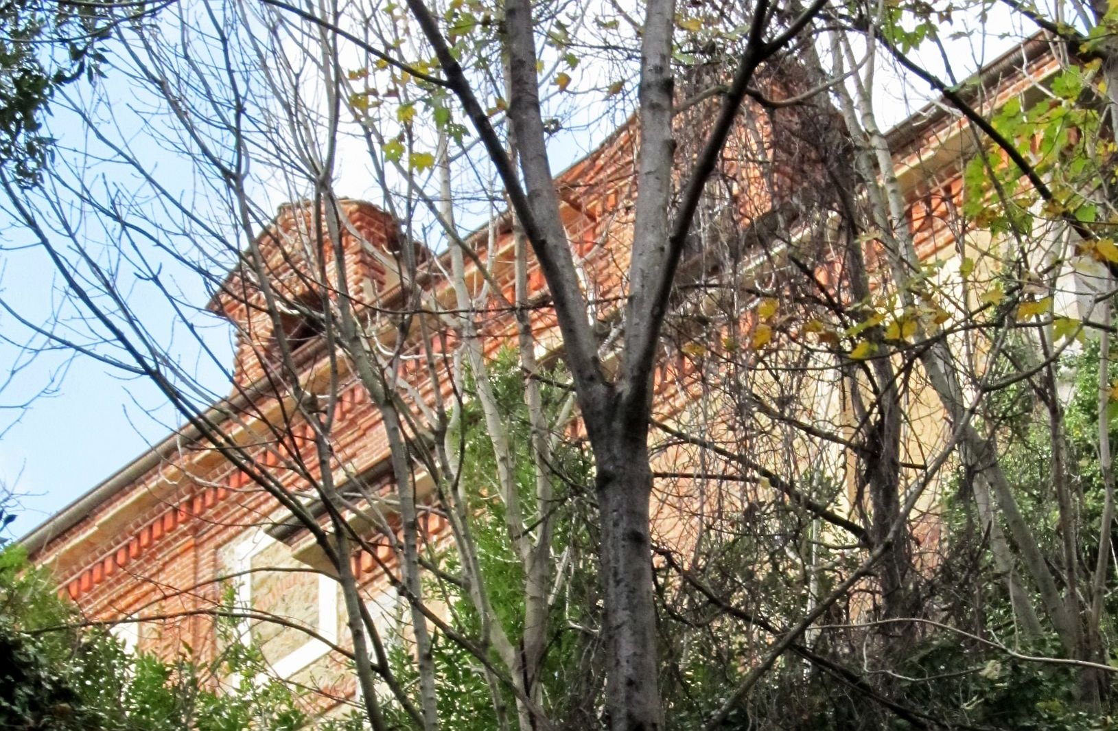 Camandona (BI, Italy): palazzo Sogno, in borgata Falletti (built in 1776)